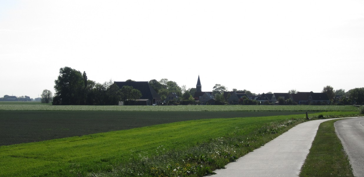 The village of Doanjum (Dongjum), Franekeradeel, Friesland, the Netherlands, as viewed from the direction of the village of Boer.